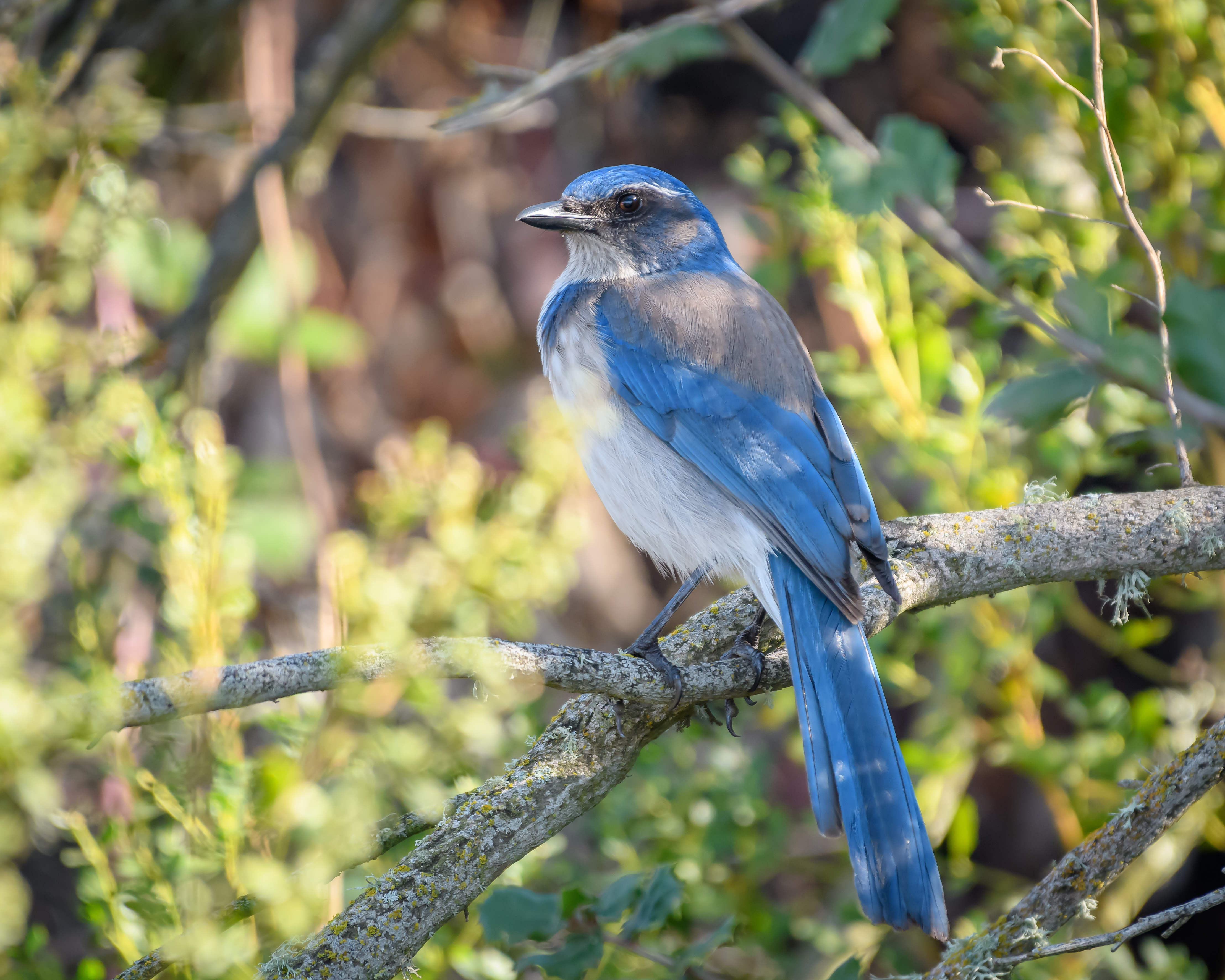 Dotson Family Marsh, Point Pinole Regional Shoreline, Richmond, California